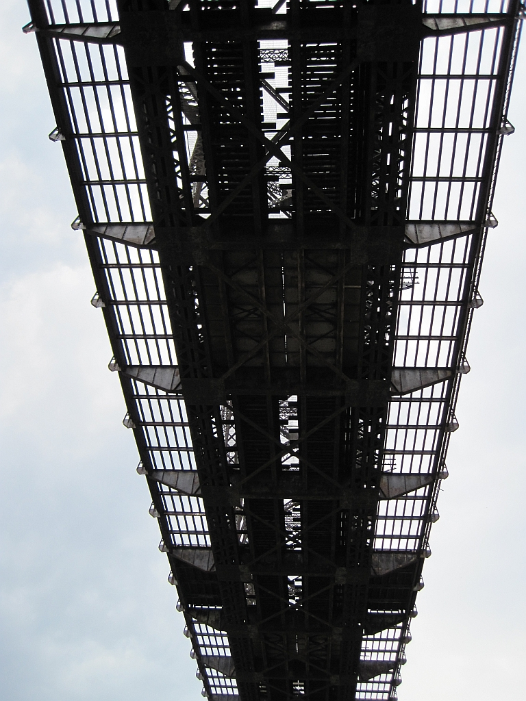 Memphis, Tennessee. Harahan Bridge